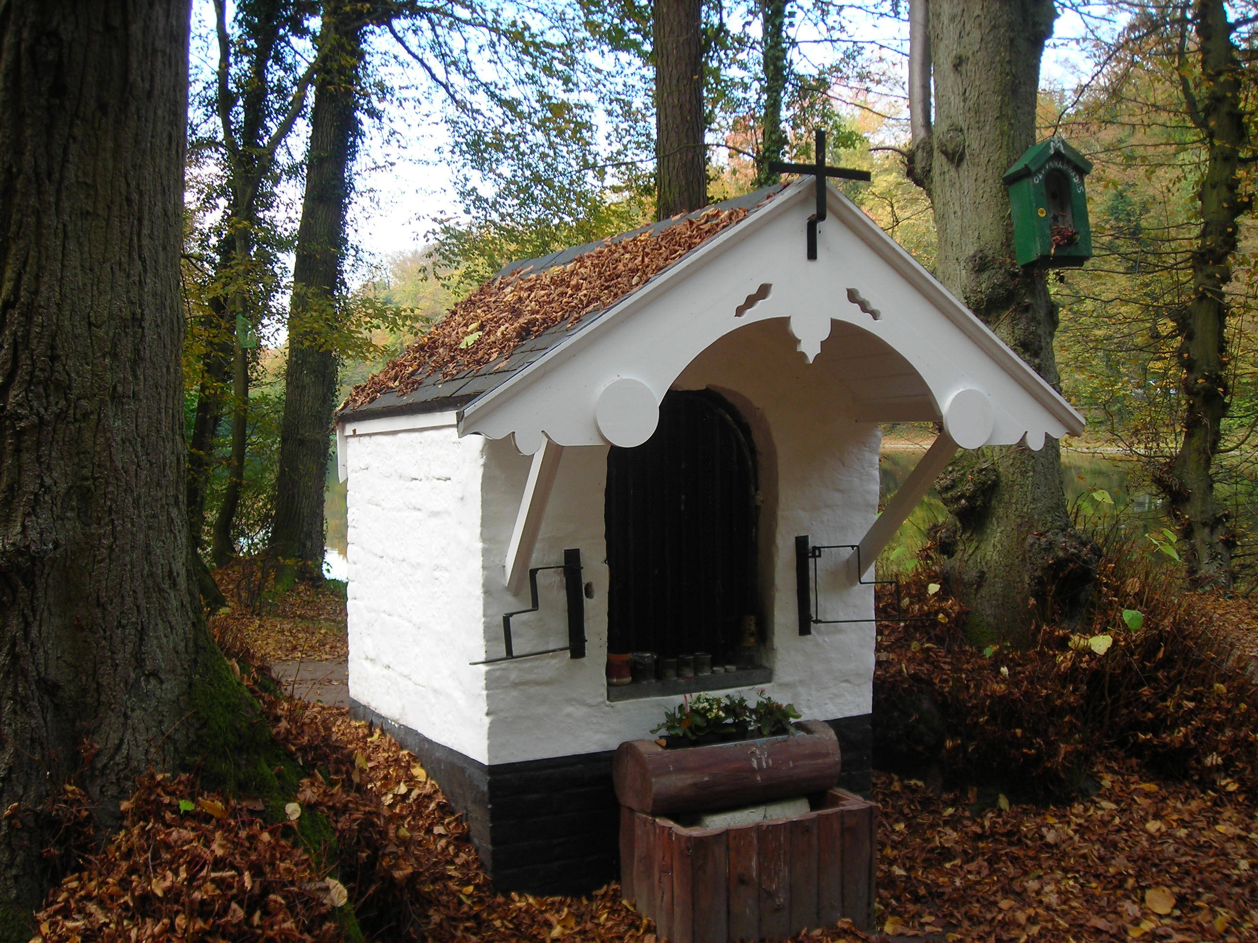 Small chapel near ruins of monastery at Groenendaal where Jan van Ruysbroeck lived and contemplated